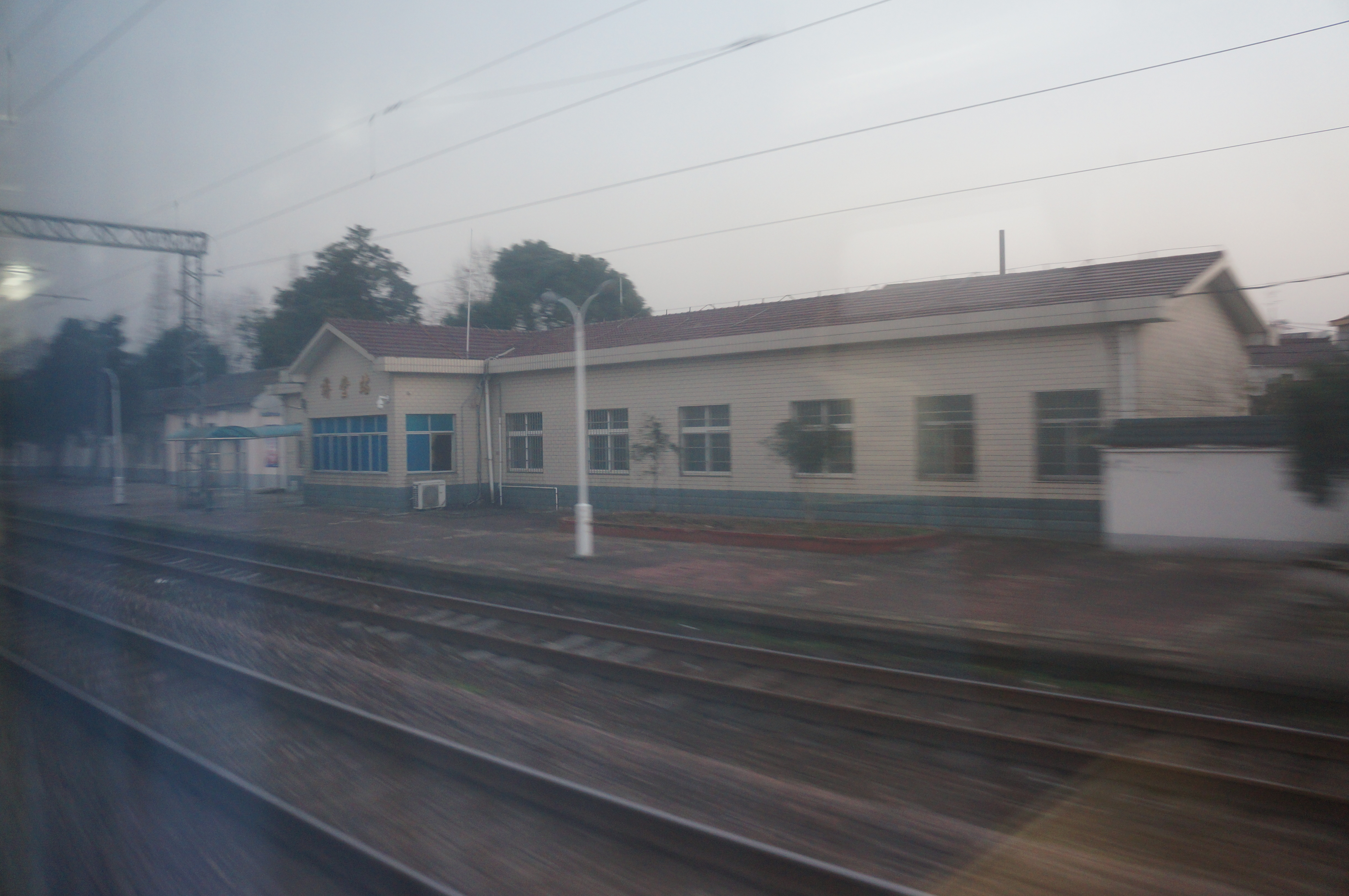 201701 Jiangtang Station